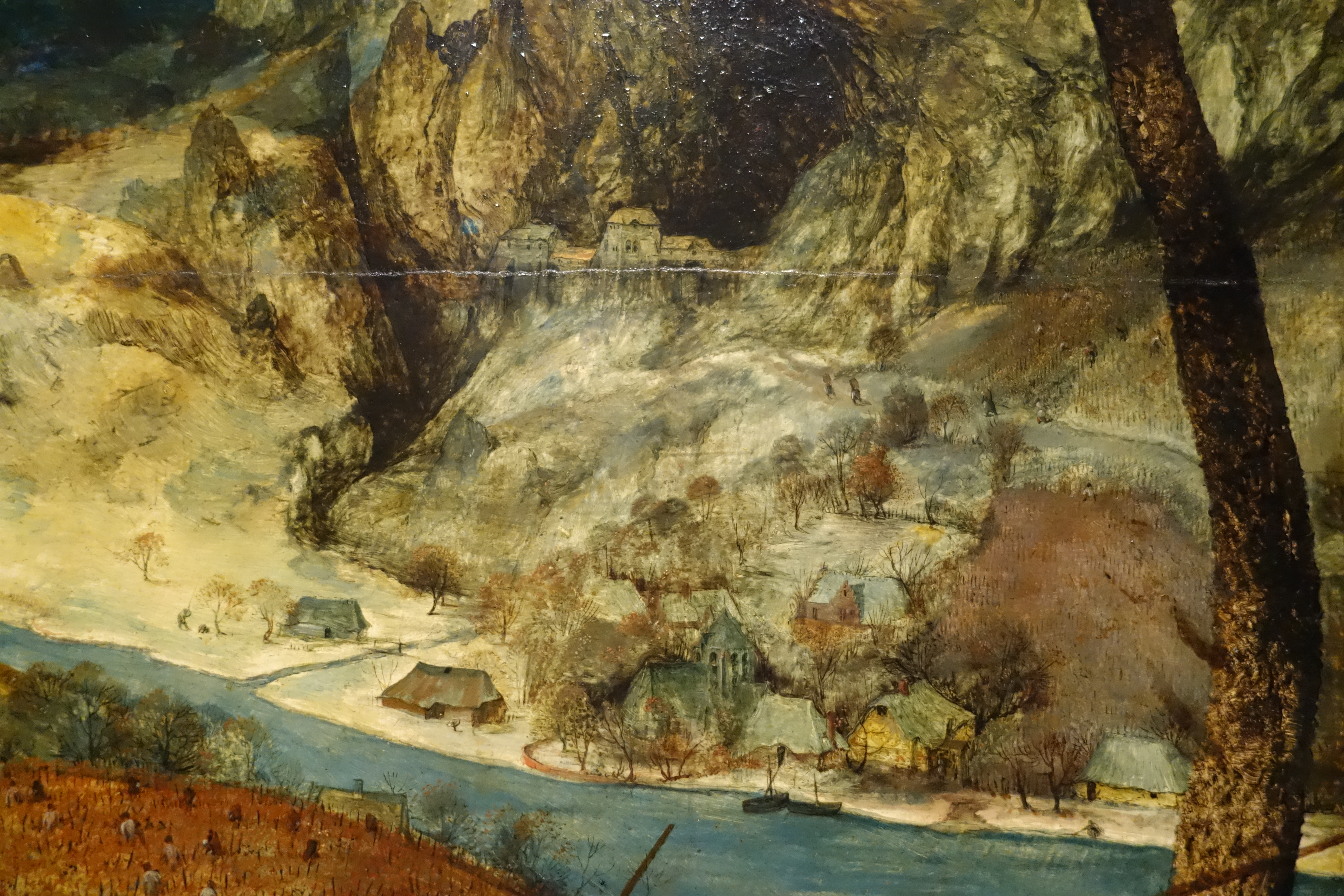 Pieter Bruegel the Elder, The return of the herd, 1565 - detail